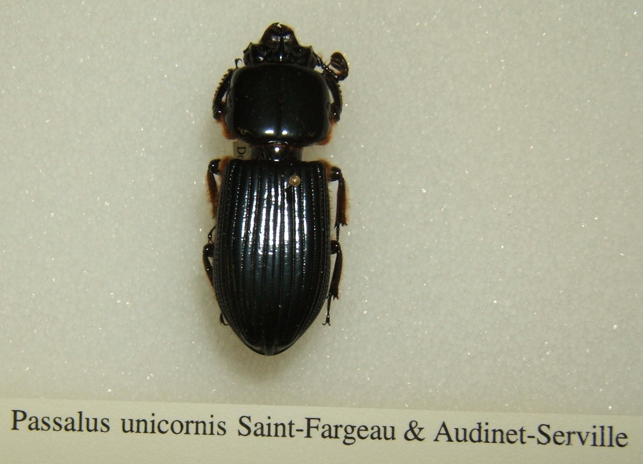 Passalus unicornis adult taken by Shawn Hanrahan at the Texas A&M University Insect Collection in College Station, Texas.